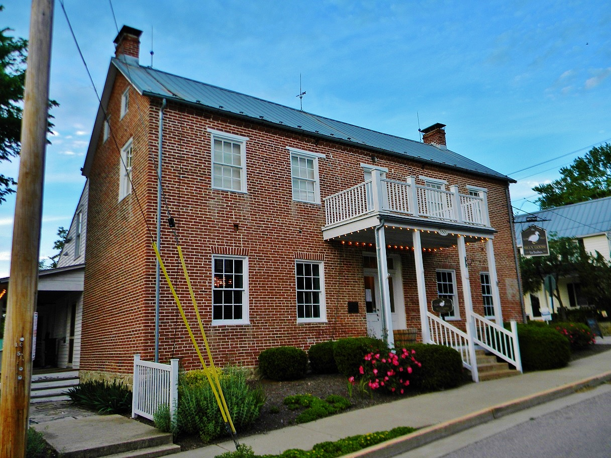 Staudinger-Grumke House-Store Street numbers have changed. This is currently signed as 5501; store is located at 5505.